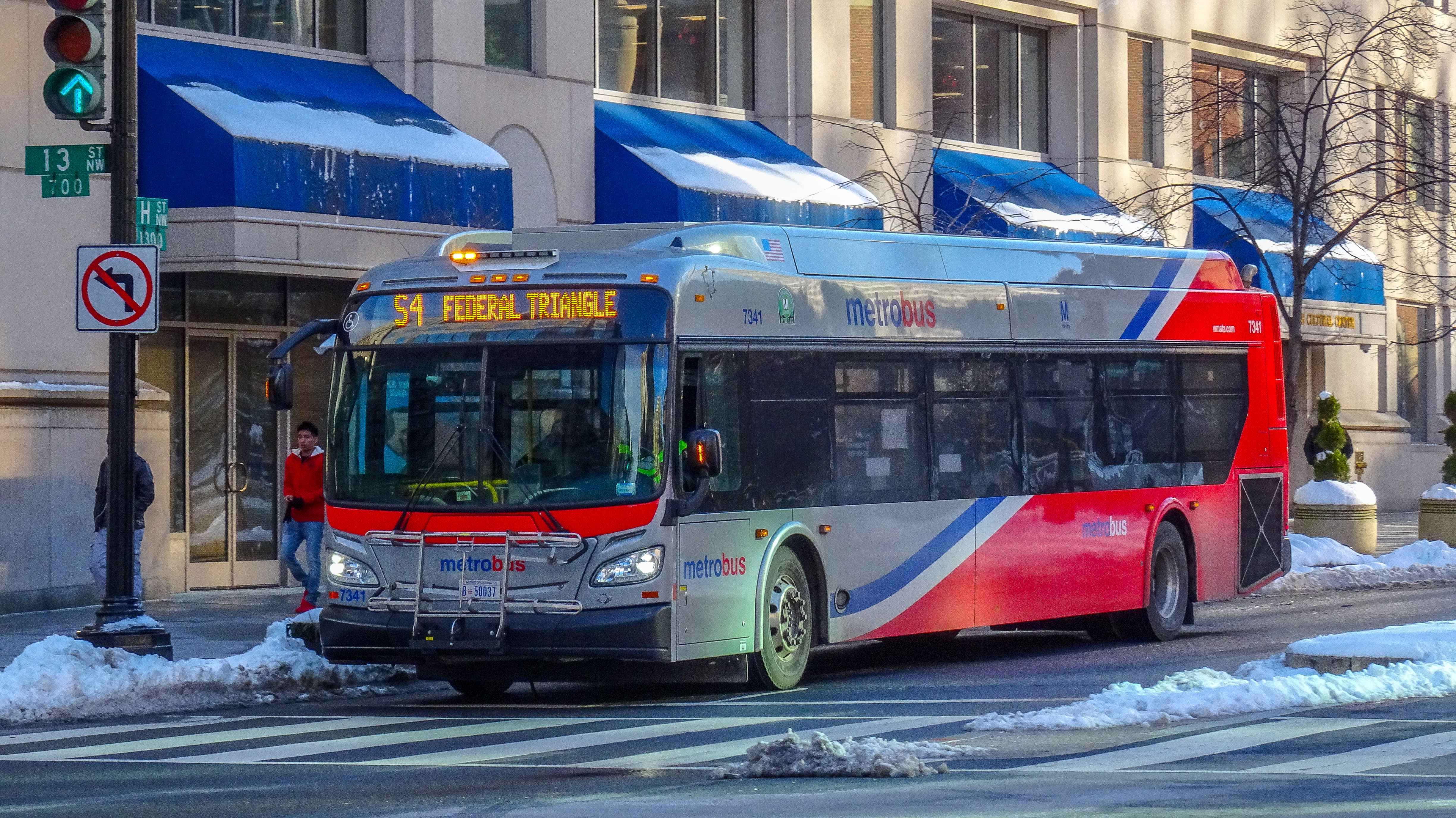 2016 WMATA NF Xcelsior XDE40 in Washington DC